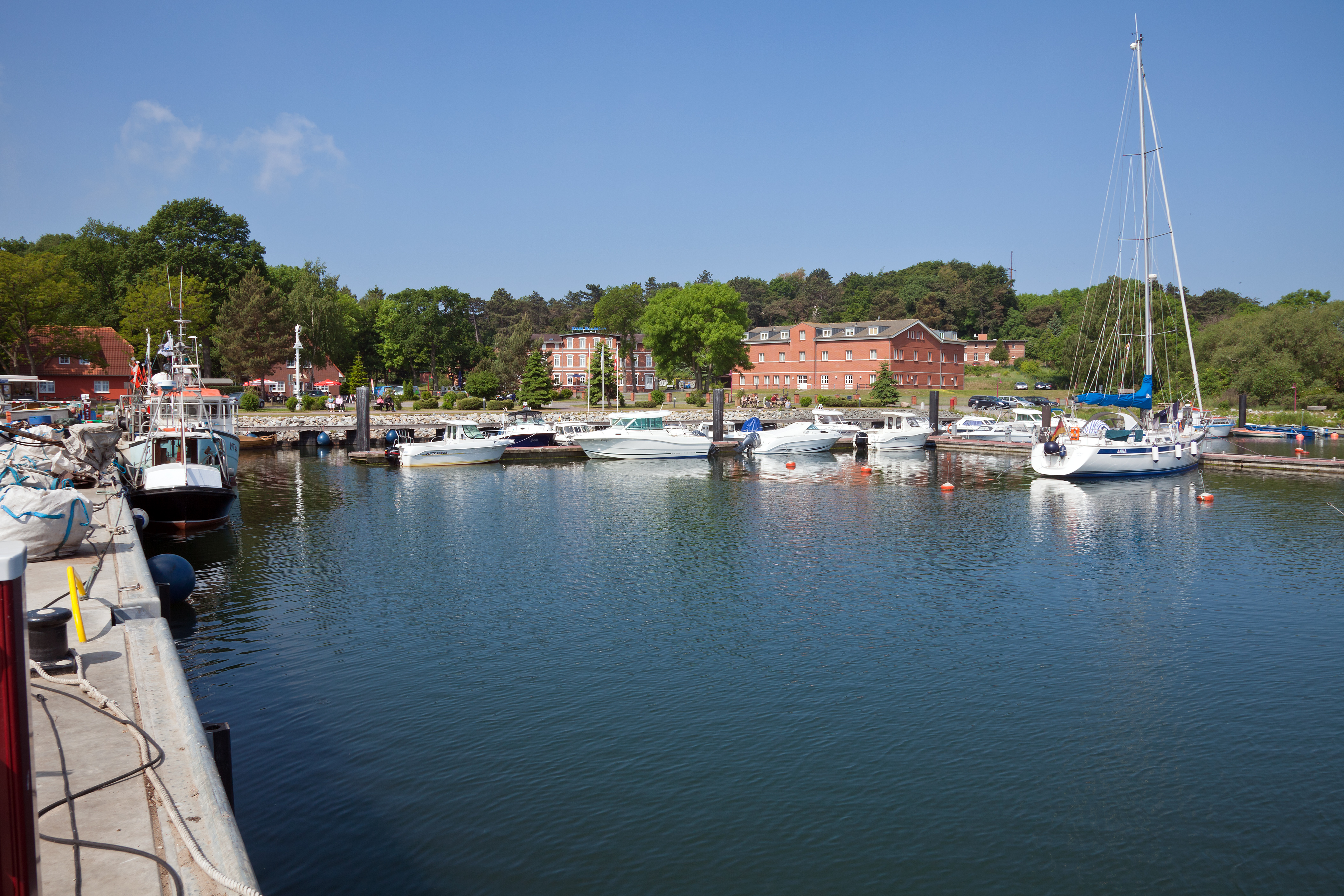 Barhöft (part of Klausdorf near Stralsund), harbour